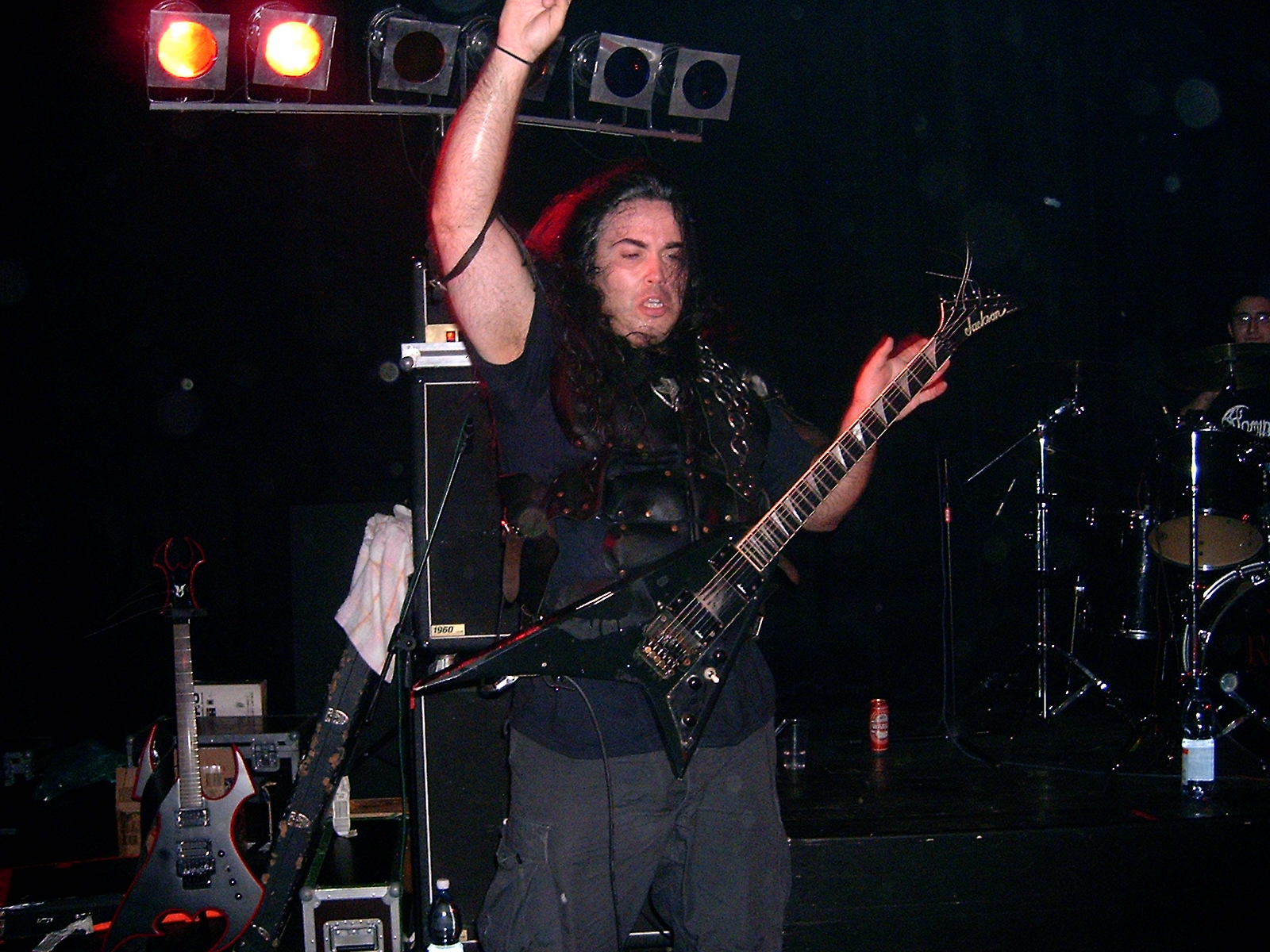 Tony Lazaro member of Vital Remains - death metal band